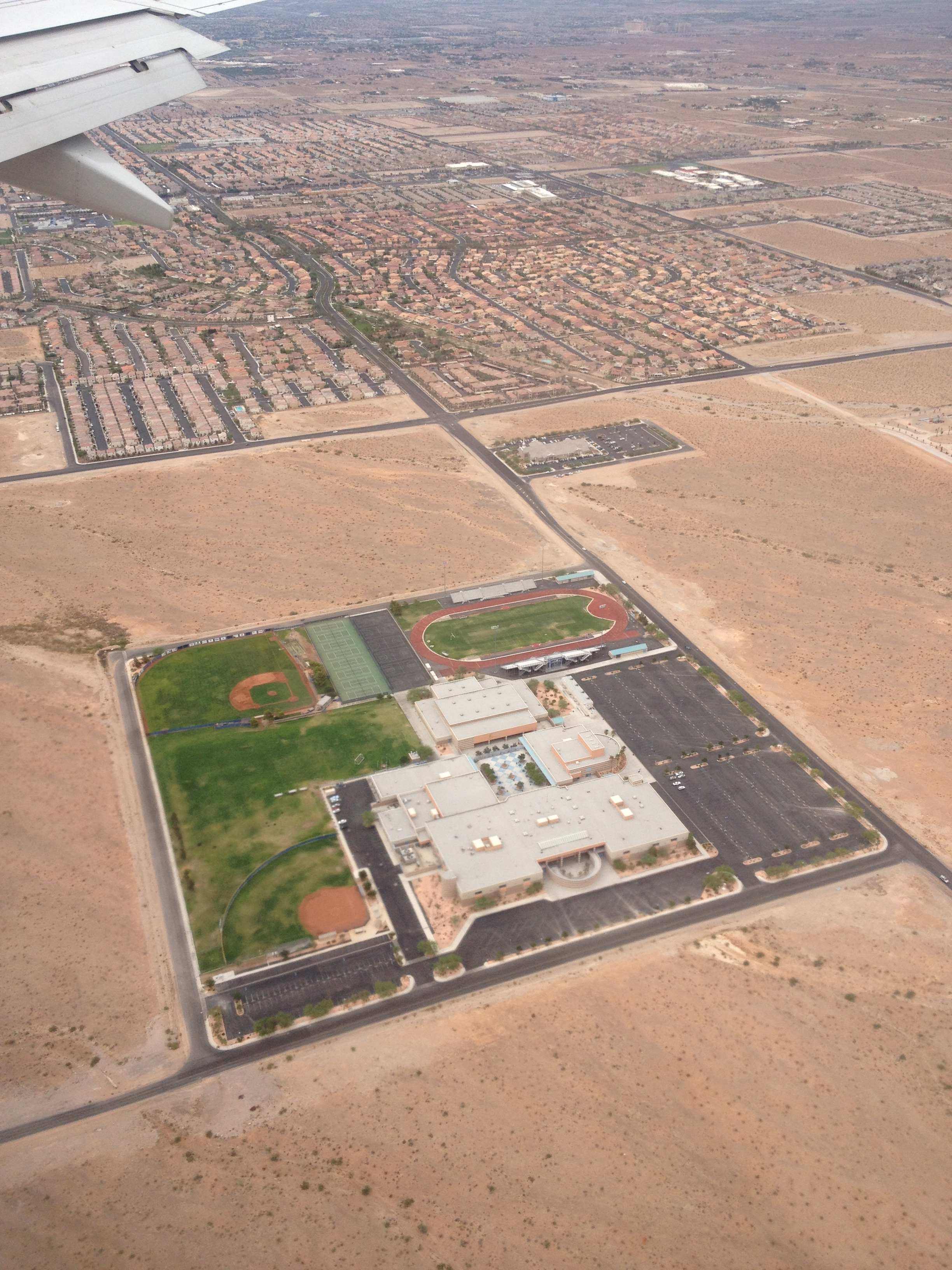 Sierra Vista High School, viewed from the air.